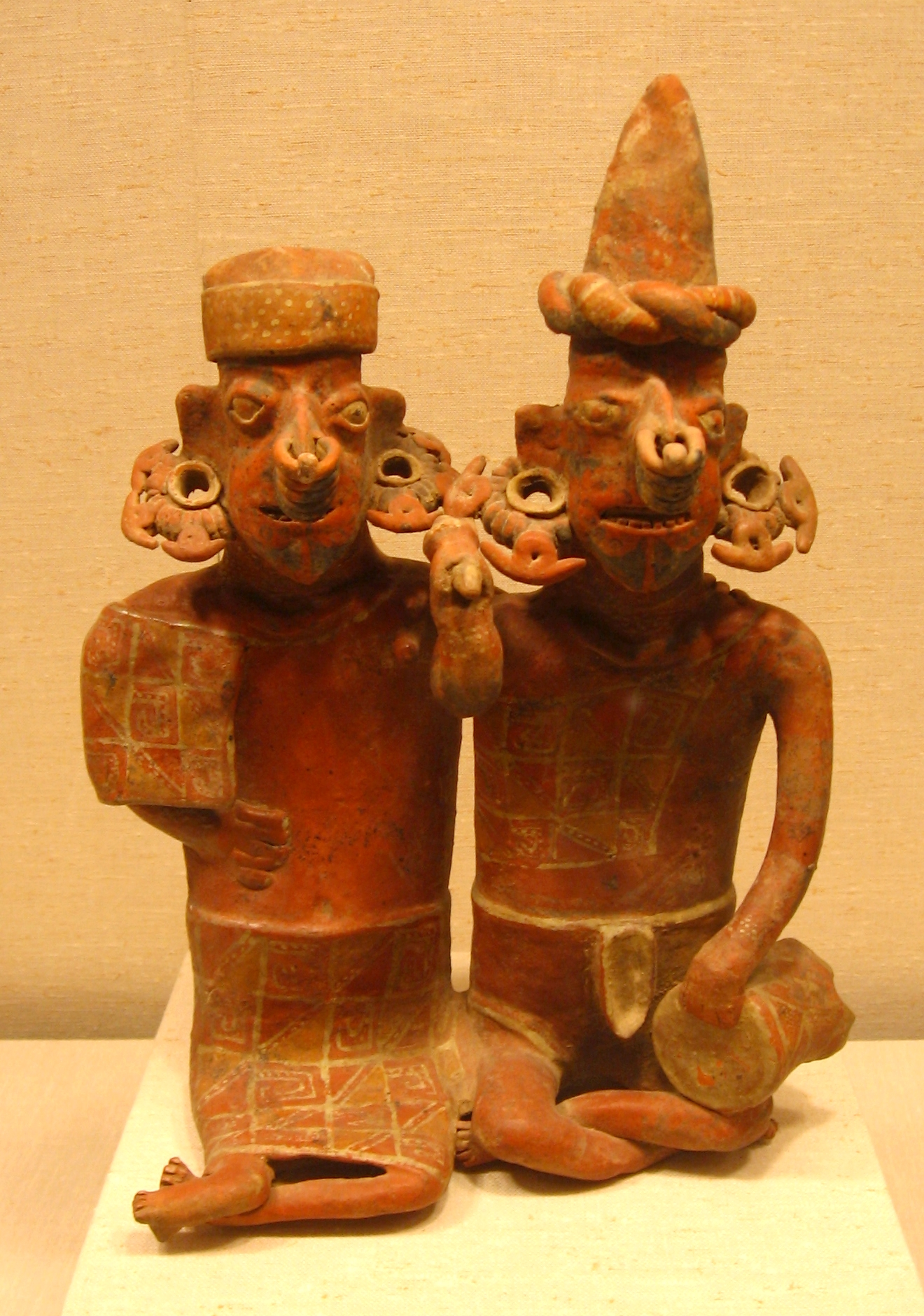 Marriage pair (Ancestor figures) from Western Mexico shaft tomb tradition, from Nayarit, Mexico. Ixtlán del Río style. 100 BCE - 200 CE.